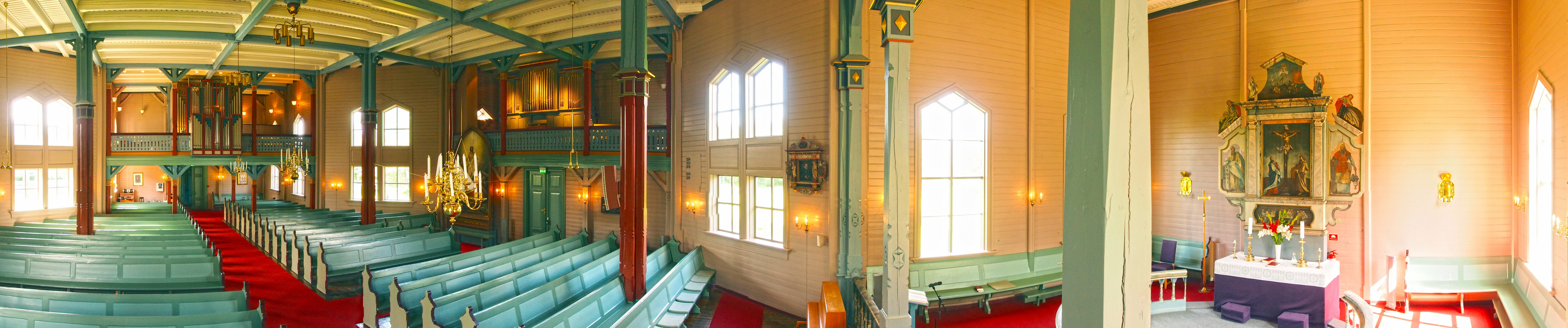 Nesna church